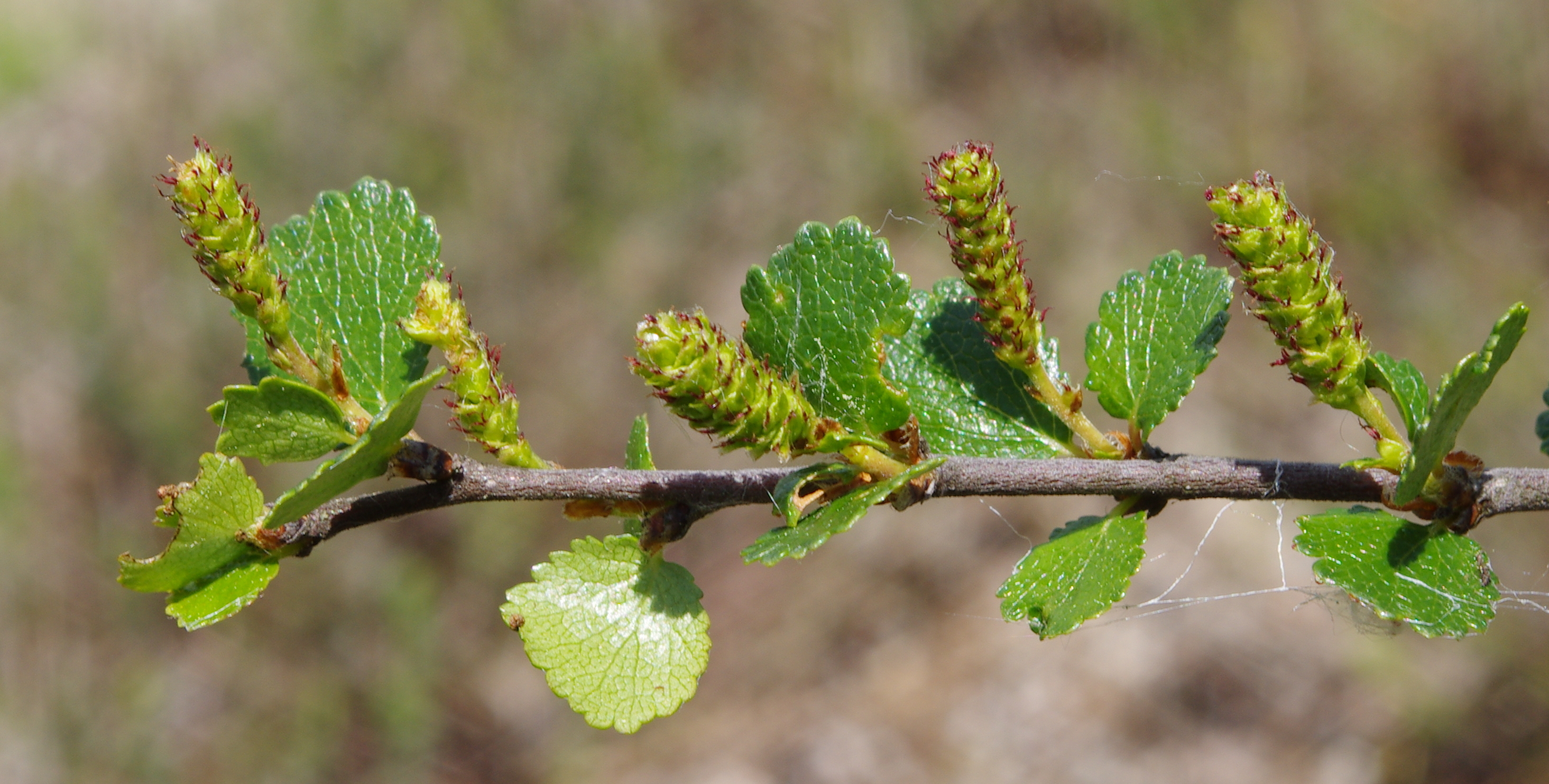 Betula nana at the ÖBG Bayreuth